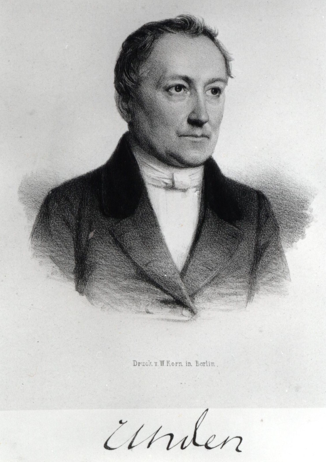 Alexander von Uhden (1798-1878), prussian minister of justice